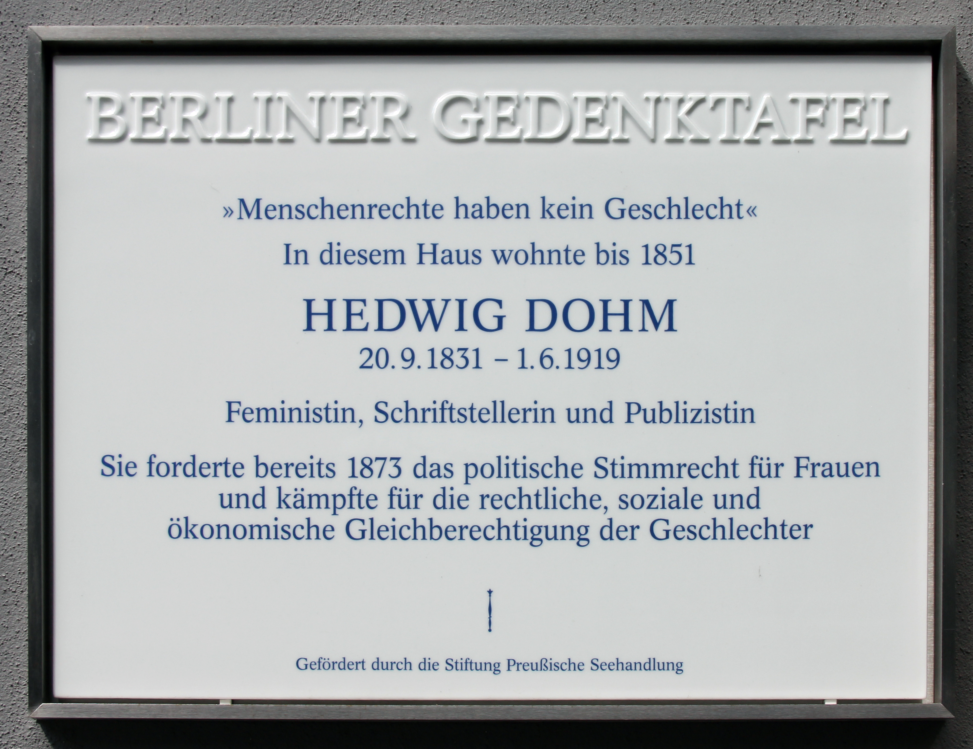 Berlin memorial plaque, Hedwig Dohm, Friedrichstraße 235, Berlin-Kreuzberg, Germany